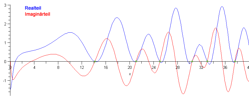 Values of the zeta functino along the critical strip 1/2+x*i